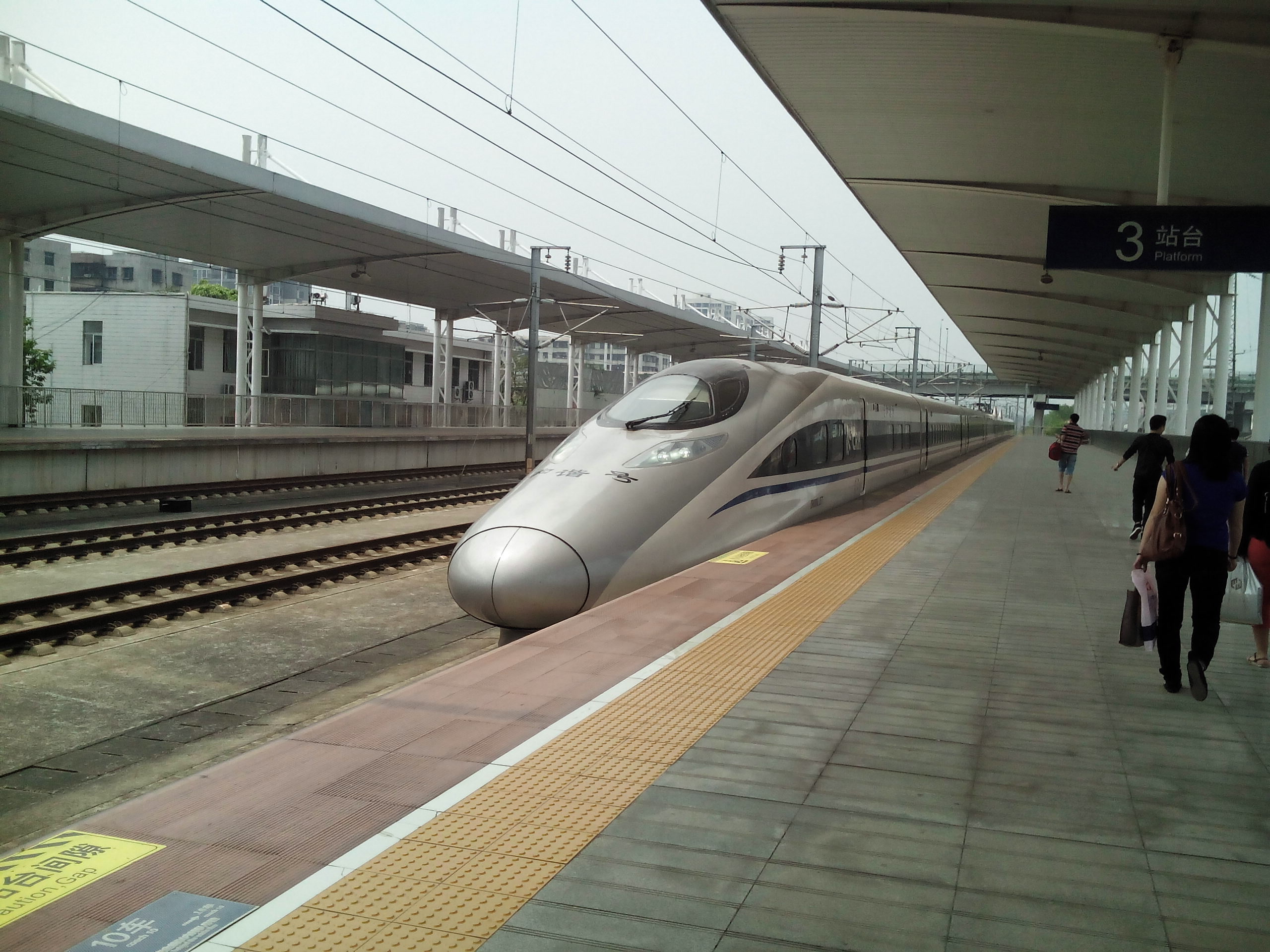 201504 G1009 enters into Guangzhoubei Station.